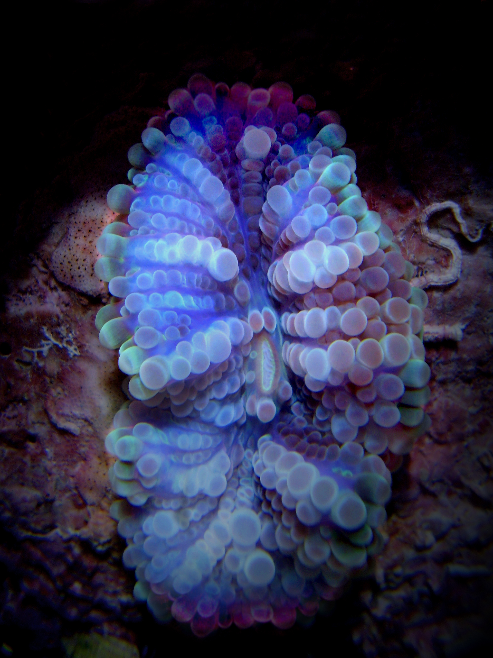 A Mushroom coral (Ricordea yuma) under actinics in aquarium. The lengthwise size of this specimen (top to bottom) is approximately two inches.